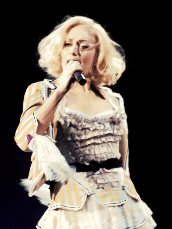 Gwen Stefani performing "Harajuku Girls" in Duluth, Georgia, United Statesyochiyamamoto